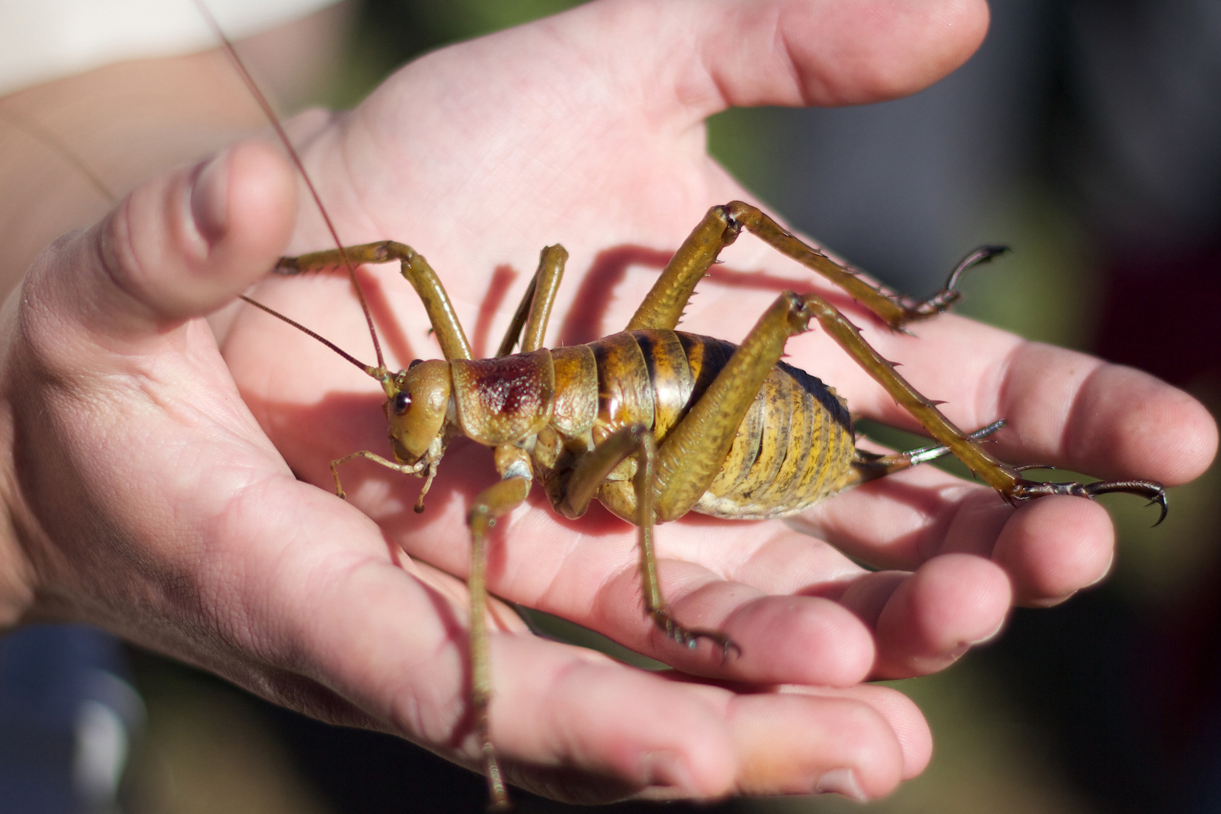 Deinacrida heteracantha, wetapunga or Little Barrier giant weta. One of 100 released on Tiritiri Matangi Island on 1st May 2014